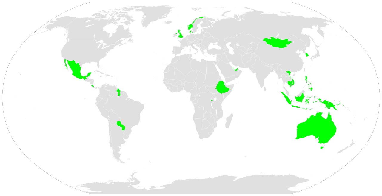 A world map with the assembly nations of the Global Green Growth Institute, as of 7/16/14, highlighted in green.